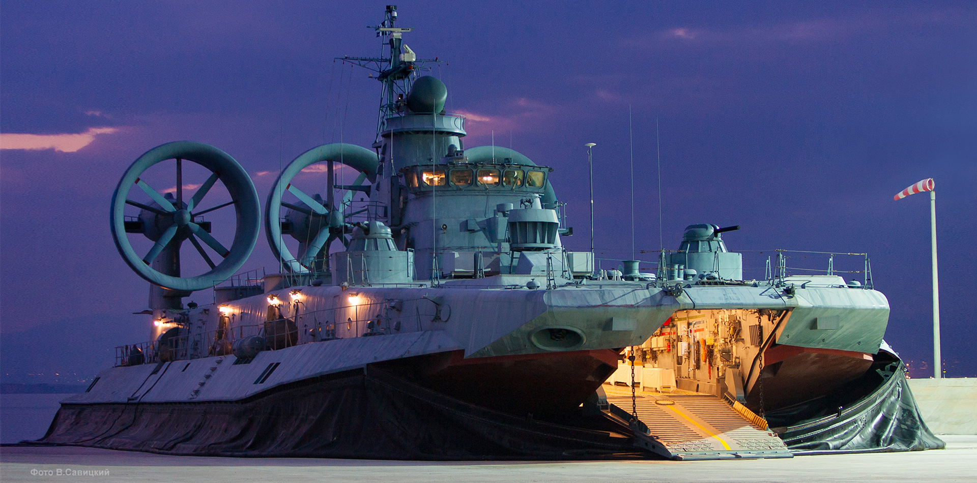 Zubr-class LCAC